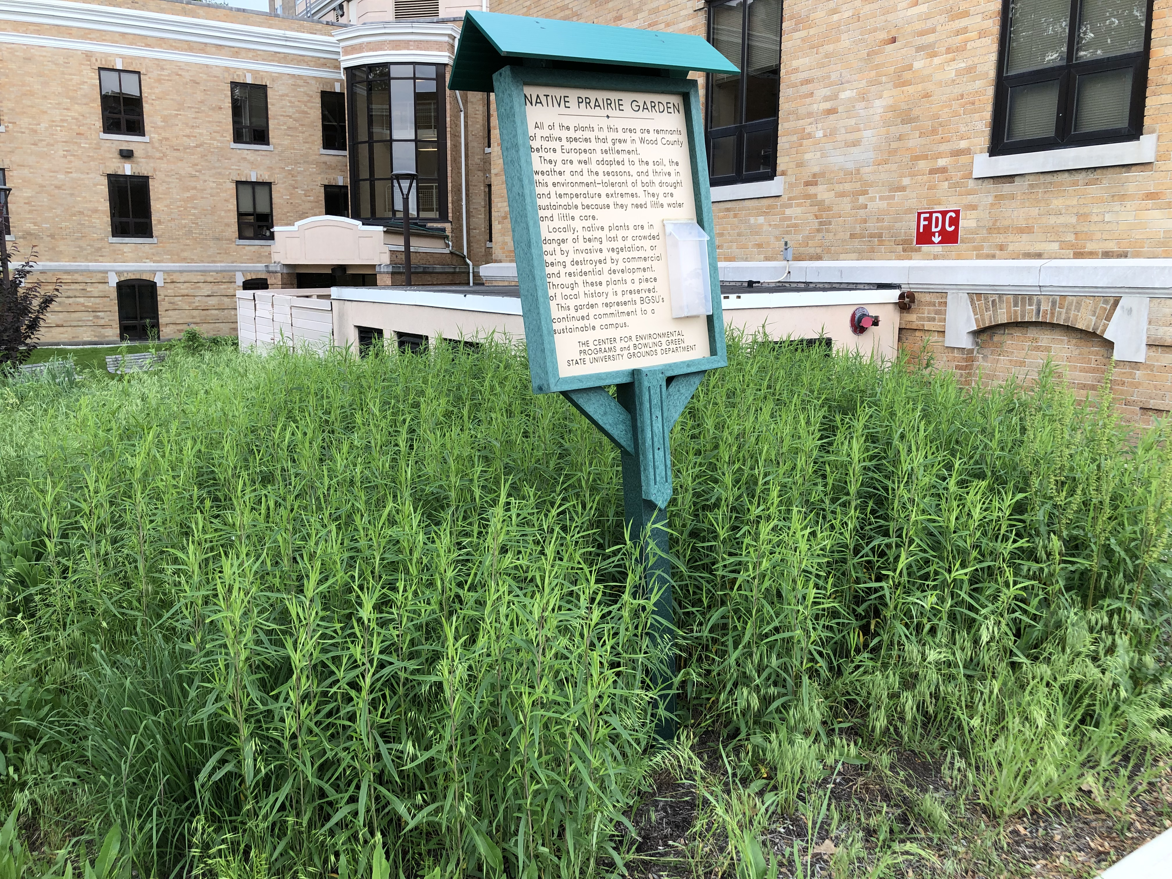 The Native Prairie Garden at BGSU. An early attempt at sustainability on campus.